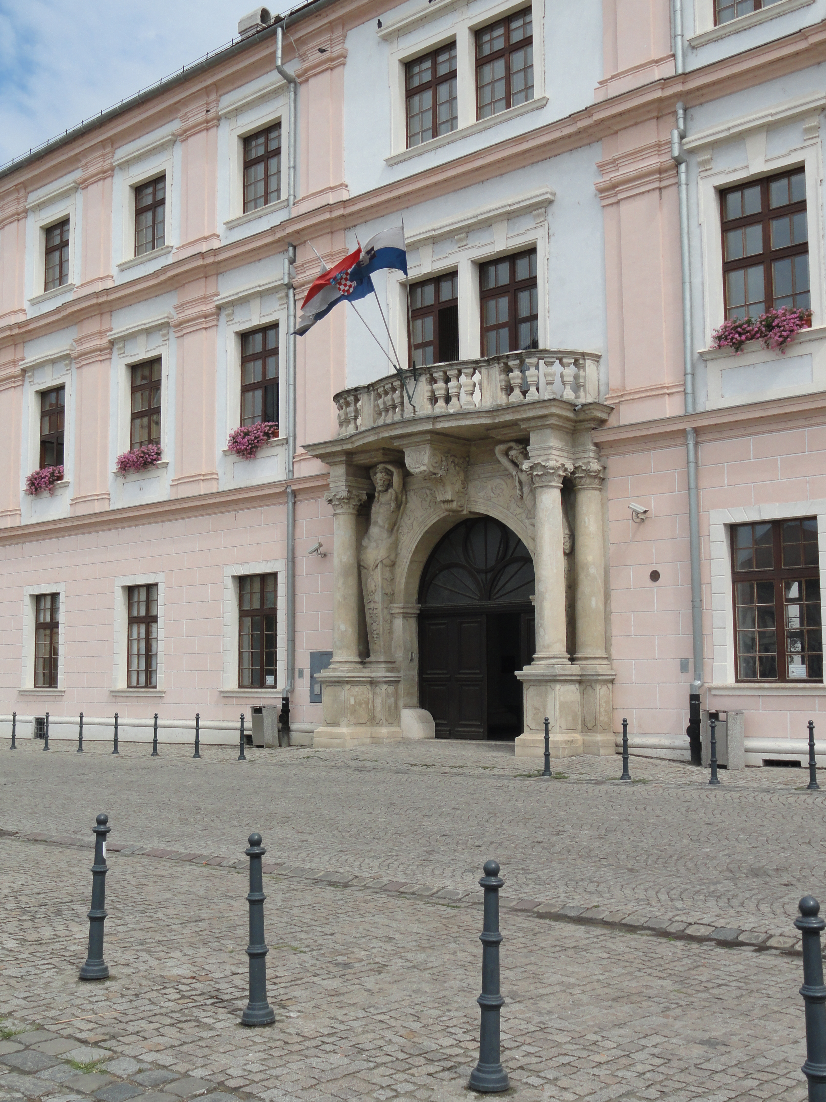 The entrance to the building of the rectorate of the University of Osijek, Croatia.